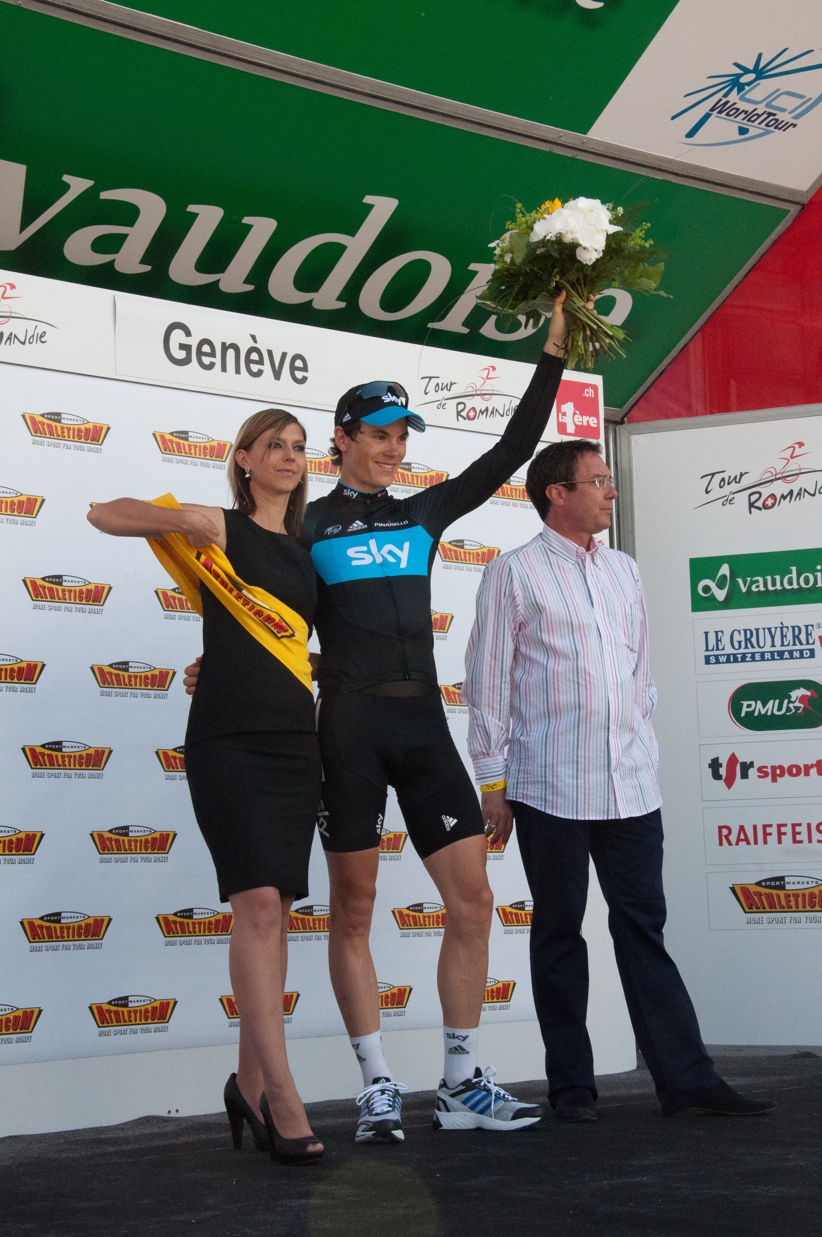 2011 Tour de Romandie, Ben Swift on the podium after winning the 5th (and last) stage.